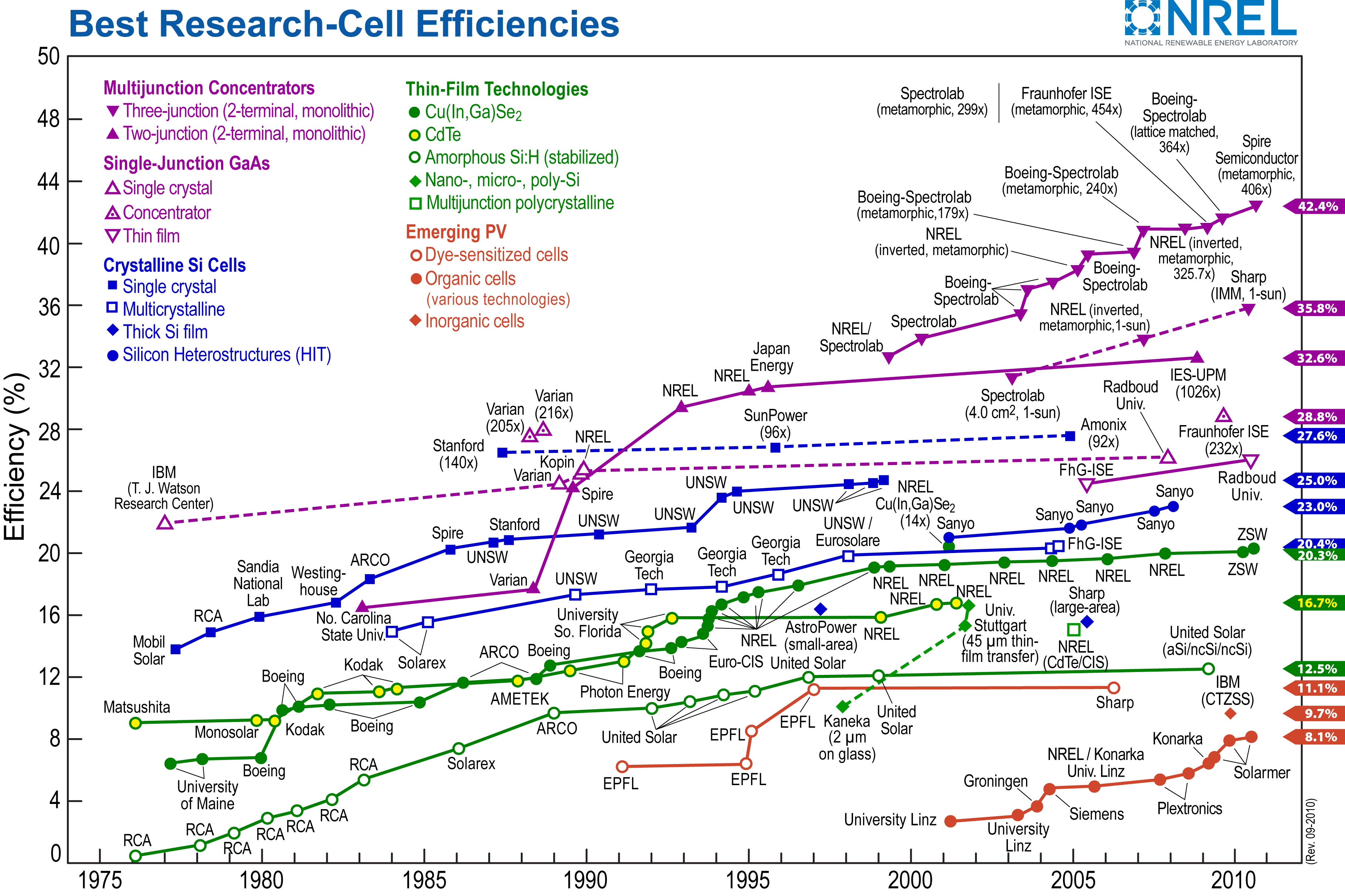 NREL compilation of best research solar cell efficiencies.